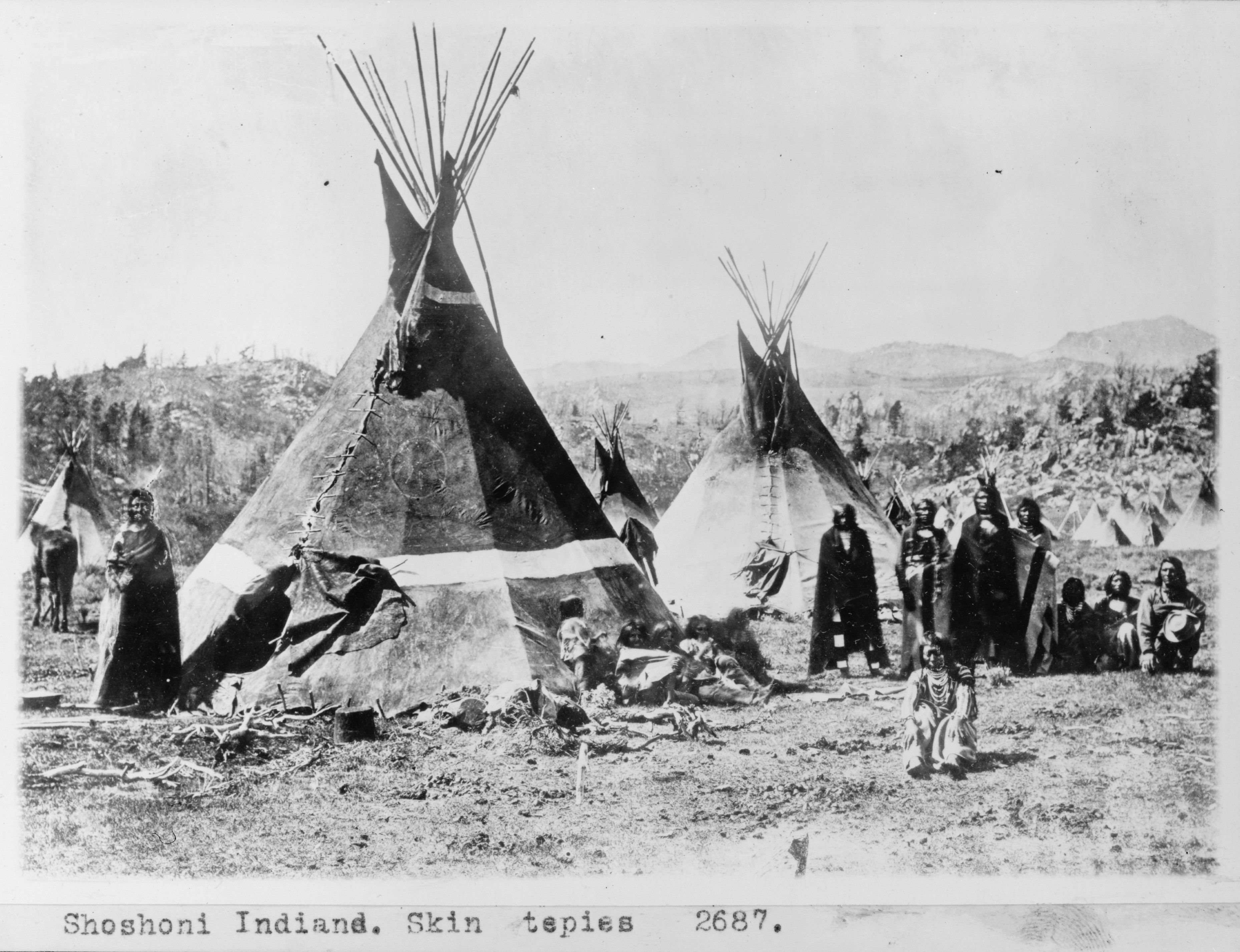 A Shoshone encampment in the Wind River Mountains of Wyoming, photographed by W. H. Jackson, 1870. See variation from Smithsonian Institution, National Anthropological Archives [#1668] here: [1] TITLE: Shoshoni Indians--Skin tepies [sic] CALL NUMBER: LOT 12337-4 REPRODUCTION NUMBER: LC-USZ62-115466 (b&w film copy neg.) No known restrictions on publication. NOTES: No. 2687.